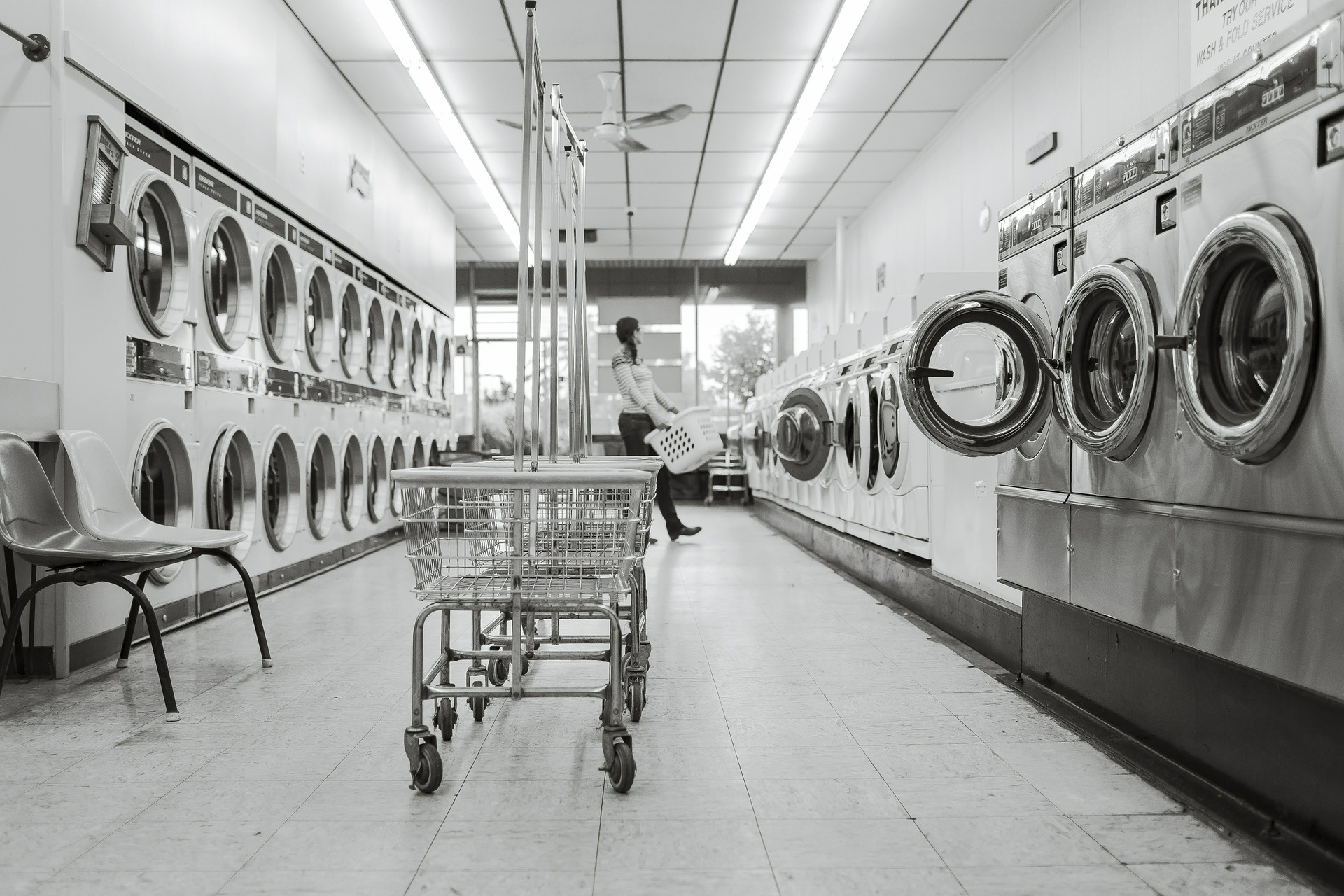 Picture of one laundromat